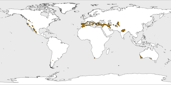 Mediterranean climate (Csa).